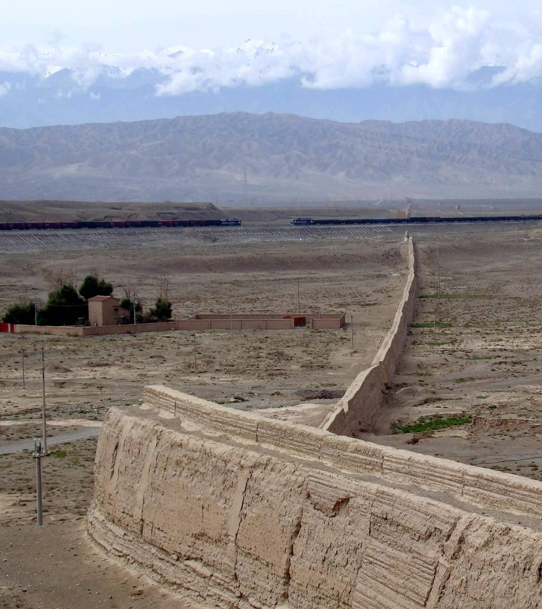 The tail-end of the Great Wall, near the Jiauguan Fort